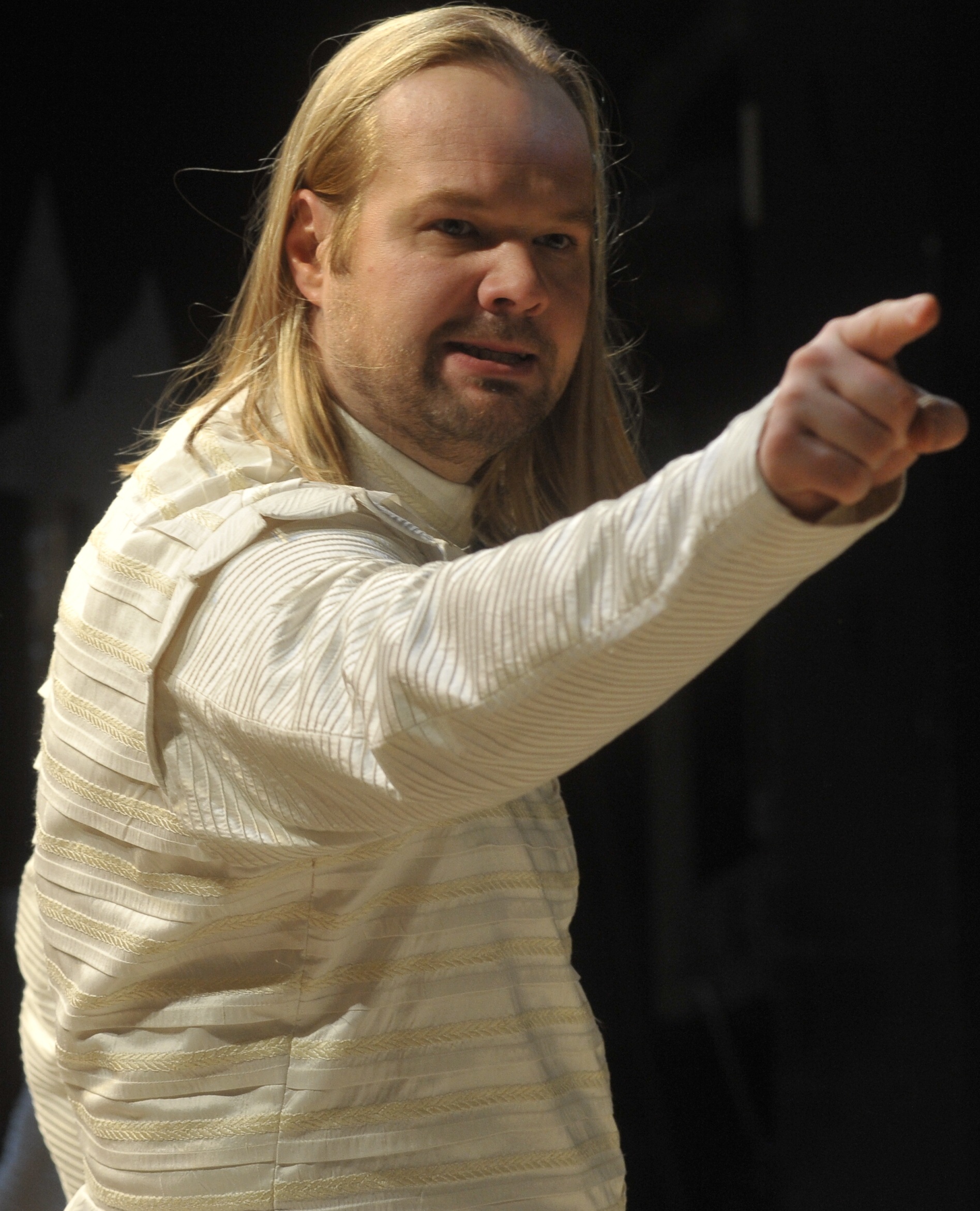 Petr Gazdík in Twelfth Night in Brno City Theatre